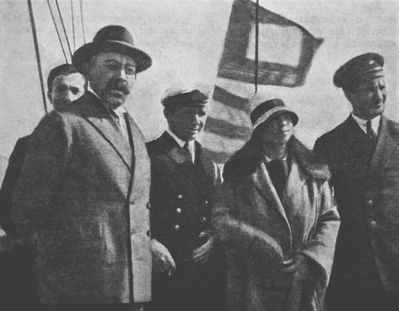 Prof Rudolf Samoylovich, Ambassador of USSR to Norway Alexandra Kollontai and Commissar Paul Oras on the Icebreaker Krasin